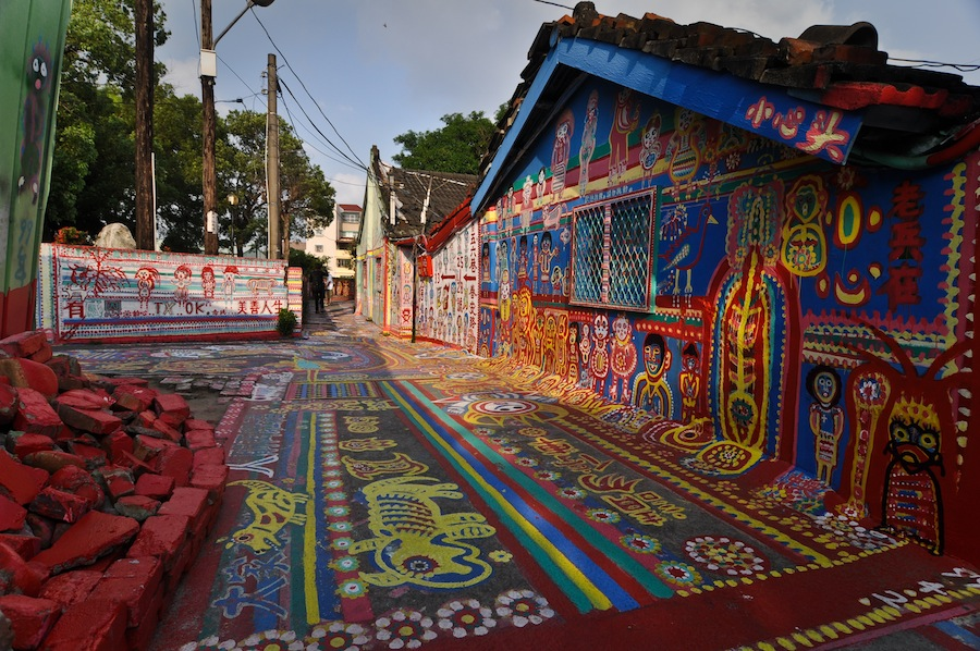 Photo of Rainbow village, Taichung, Taiwan